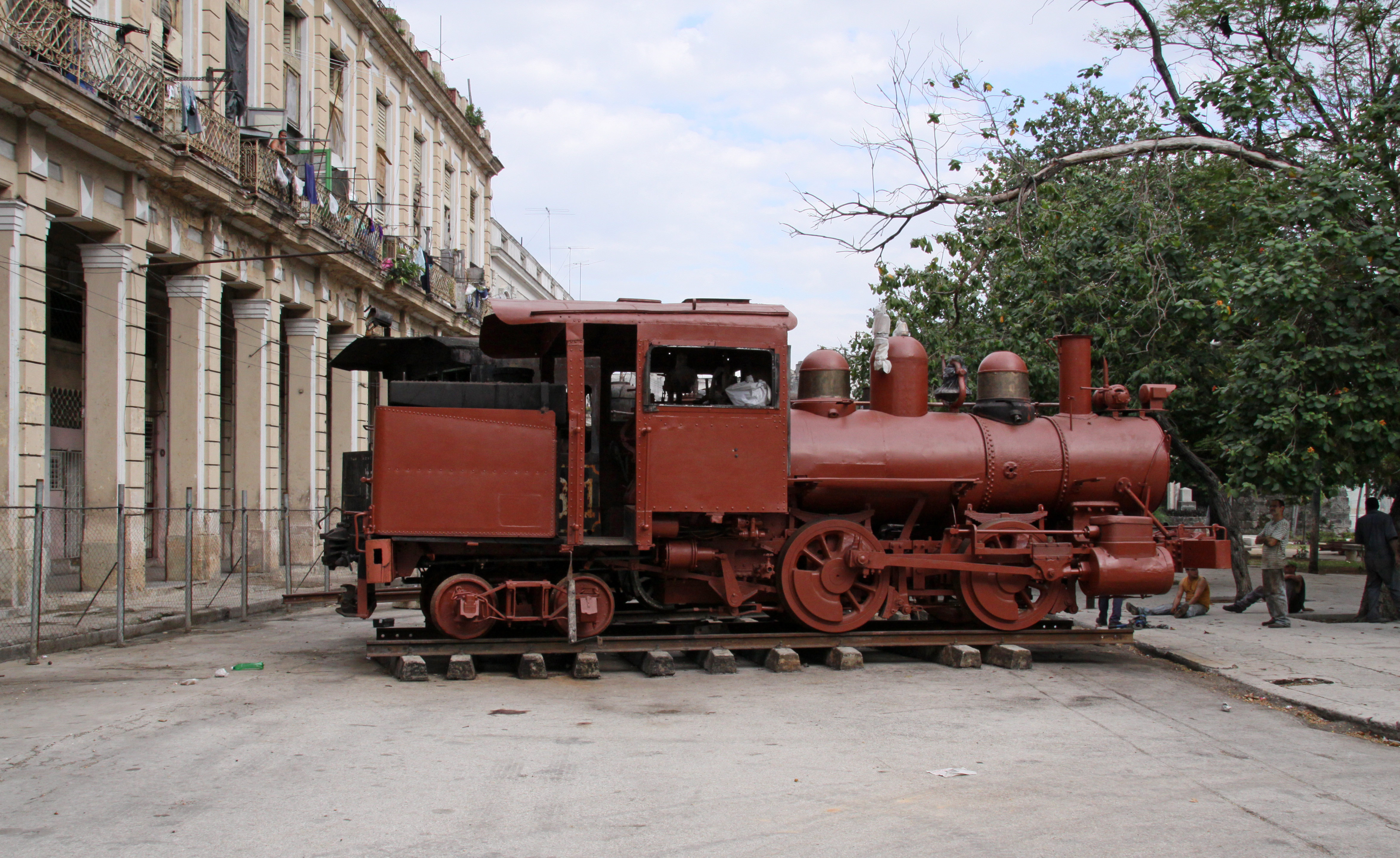 Cuban Steam Locomotive 4